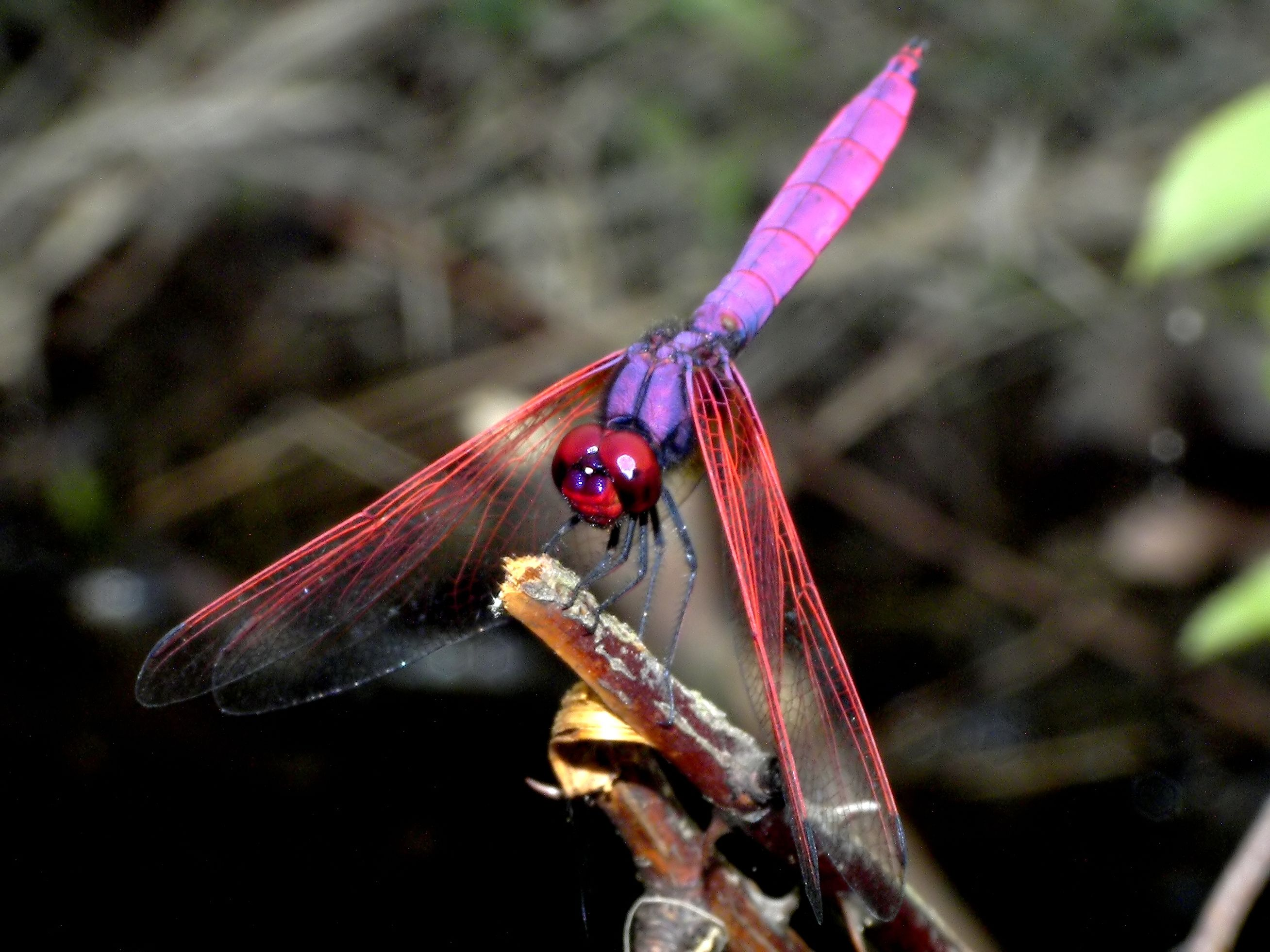 Saw at the seaside.